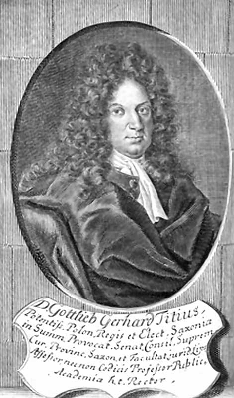 Gottlieb Gerhard Titius (1661-1714) Jurist from Germany